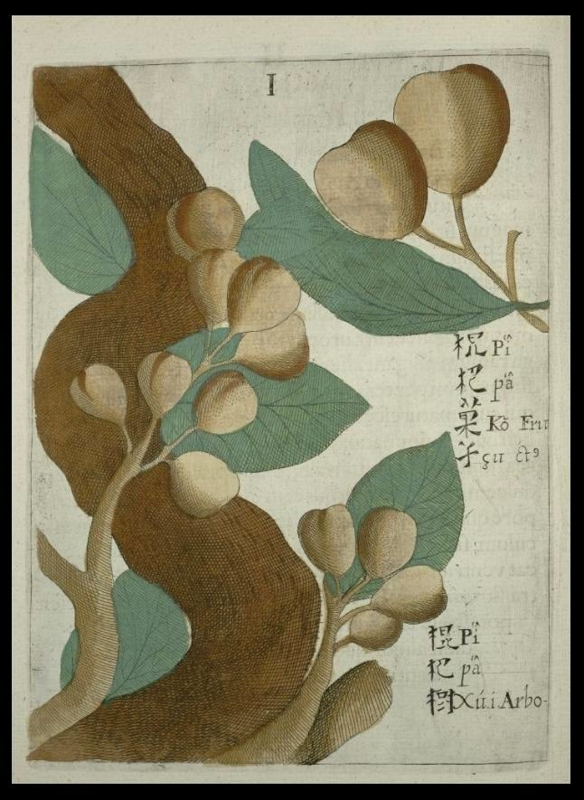 One of the earliest natural history books about China. Jesuit Missionary author. (obviously includes some non-Chinese {and non-floral} species)